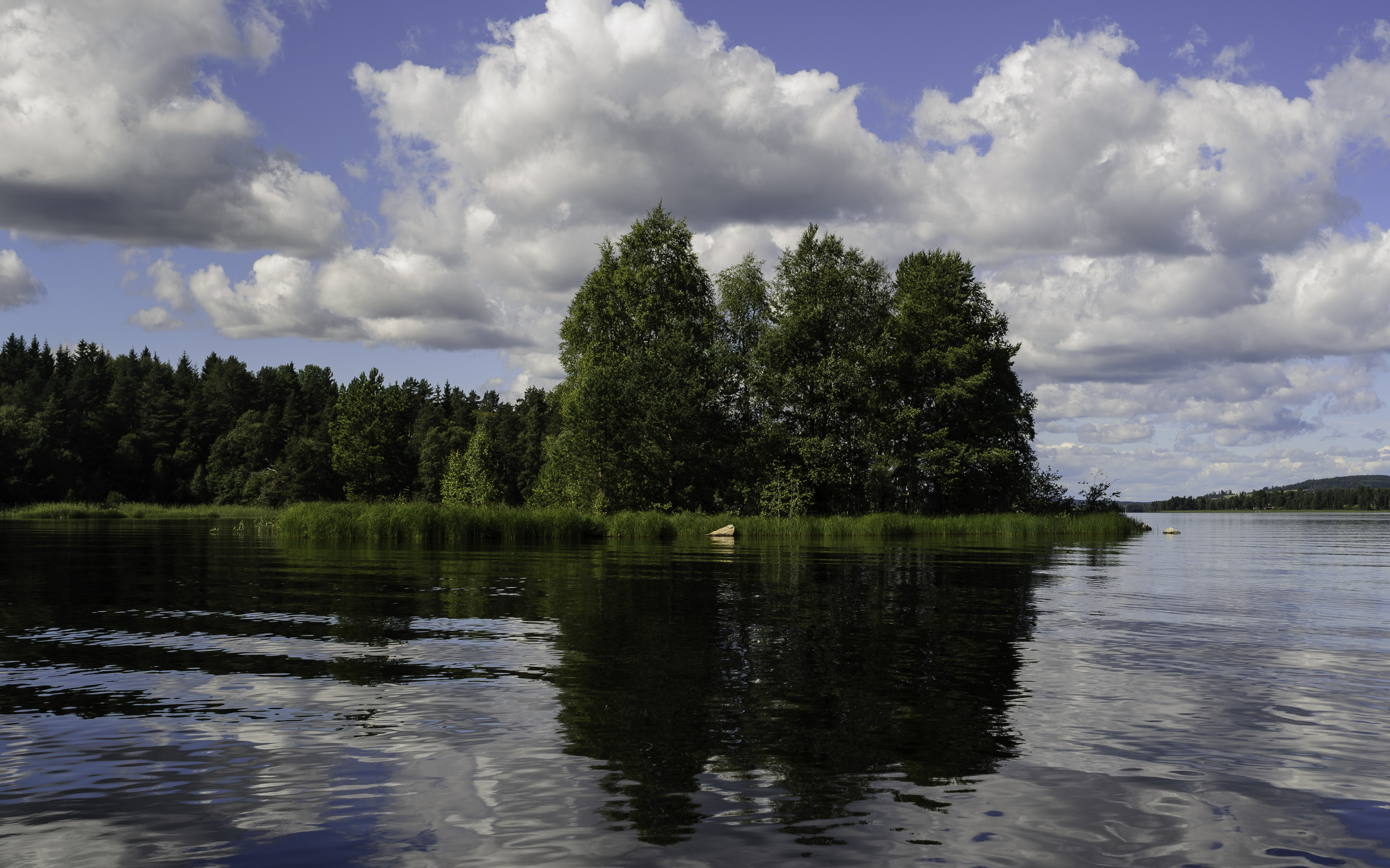 Lake Insjön, Dalarna County, Sweden. In the foreground, Prästön (the Priest island).